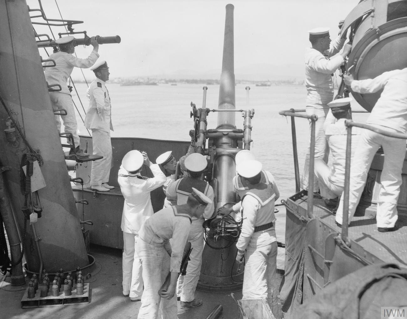 IWM caption : Gun crew on board the battleship HMS AGAMEMNON preparing to fire the 12-pounder anti-aircraft gun, which brought down Zeppelin LZ. 85 in the marshes at the mouth of the Vardar on 5 May 1916.